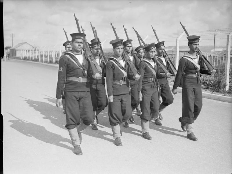 Men of the Royal Indian Navy, at Stamshaw Training Camp, Portsmouth. 8 July 1942. A squad of ratings during a routine drill.